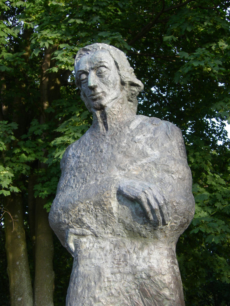 Monument of Frédéric Chopin, Ustka, Poland